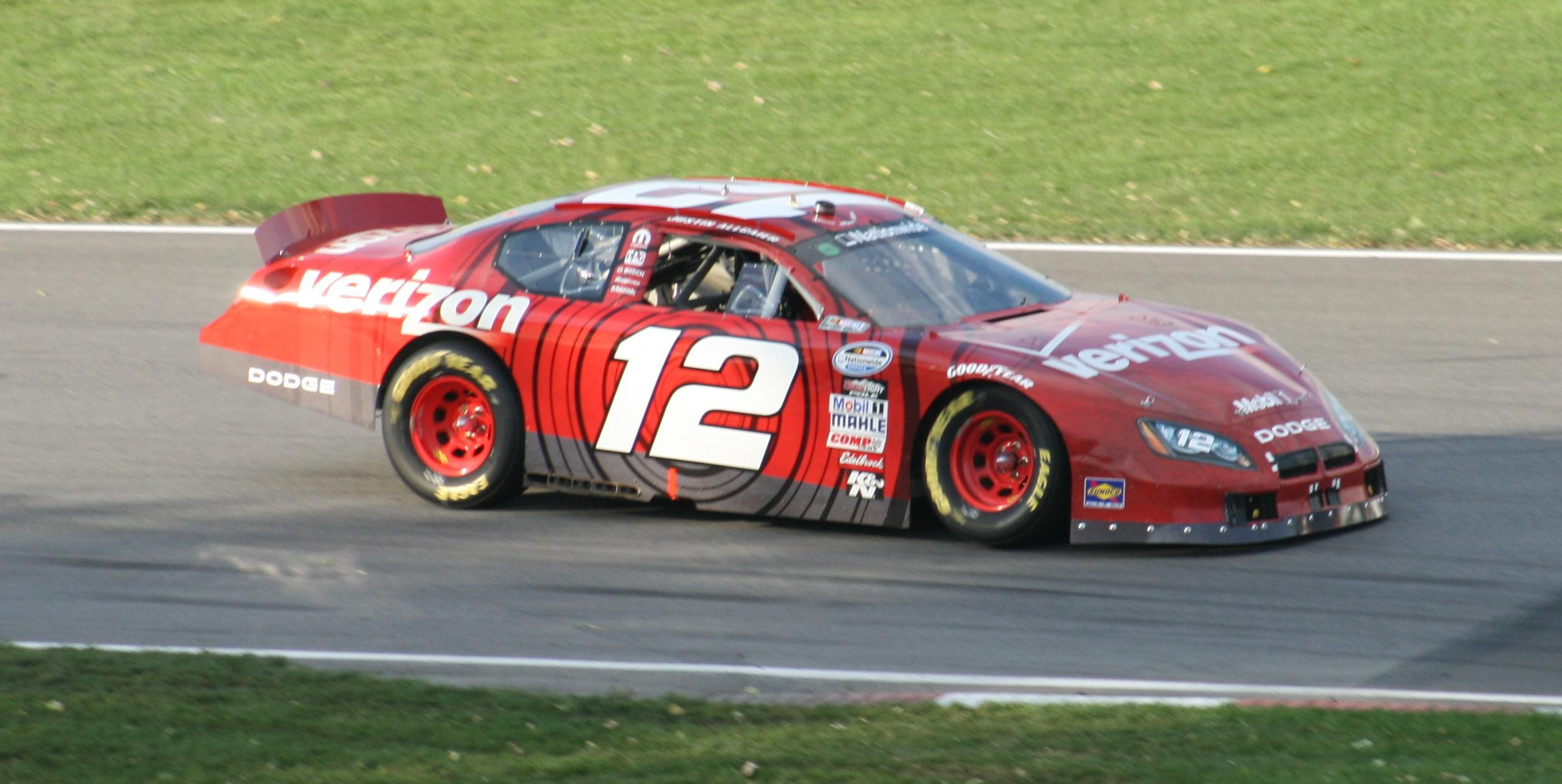 Justin Allgaier in the qualification for the 2010 NAPA Auto Parts 200 at the Circuit Gilles Villeneuve in Montreal.